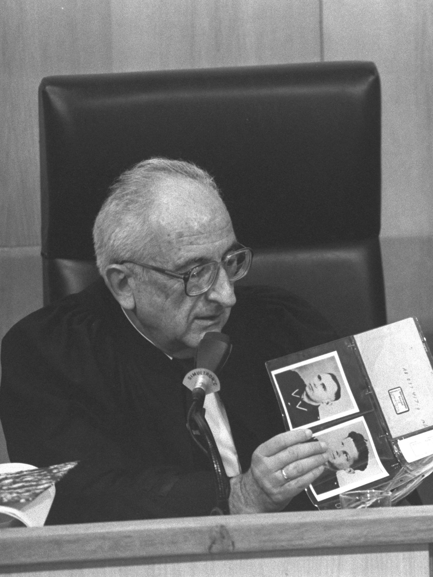 Supreme court justice dov levin looking at a photo album during the trial of john (Ivan) Demjanjuk in jerusalem (23/02/1987).